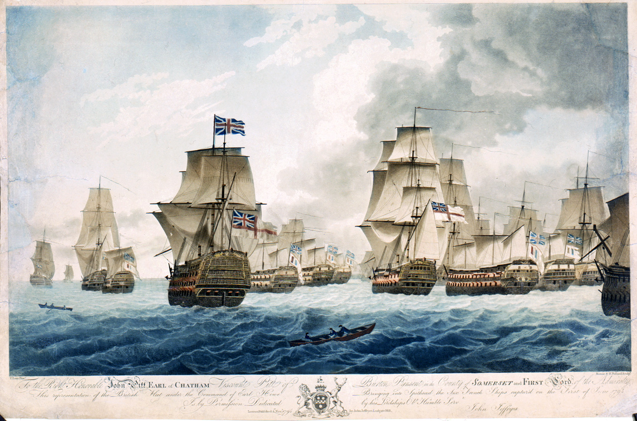 To the Right Honorable John Pitt, Earl of Chatham... This representation of the British Fleet... Bringing into Spithead the Six French Ships captur'd on the First of June 1794; aquatint, coloured